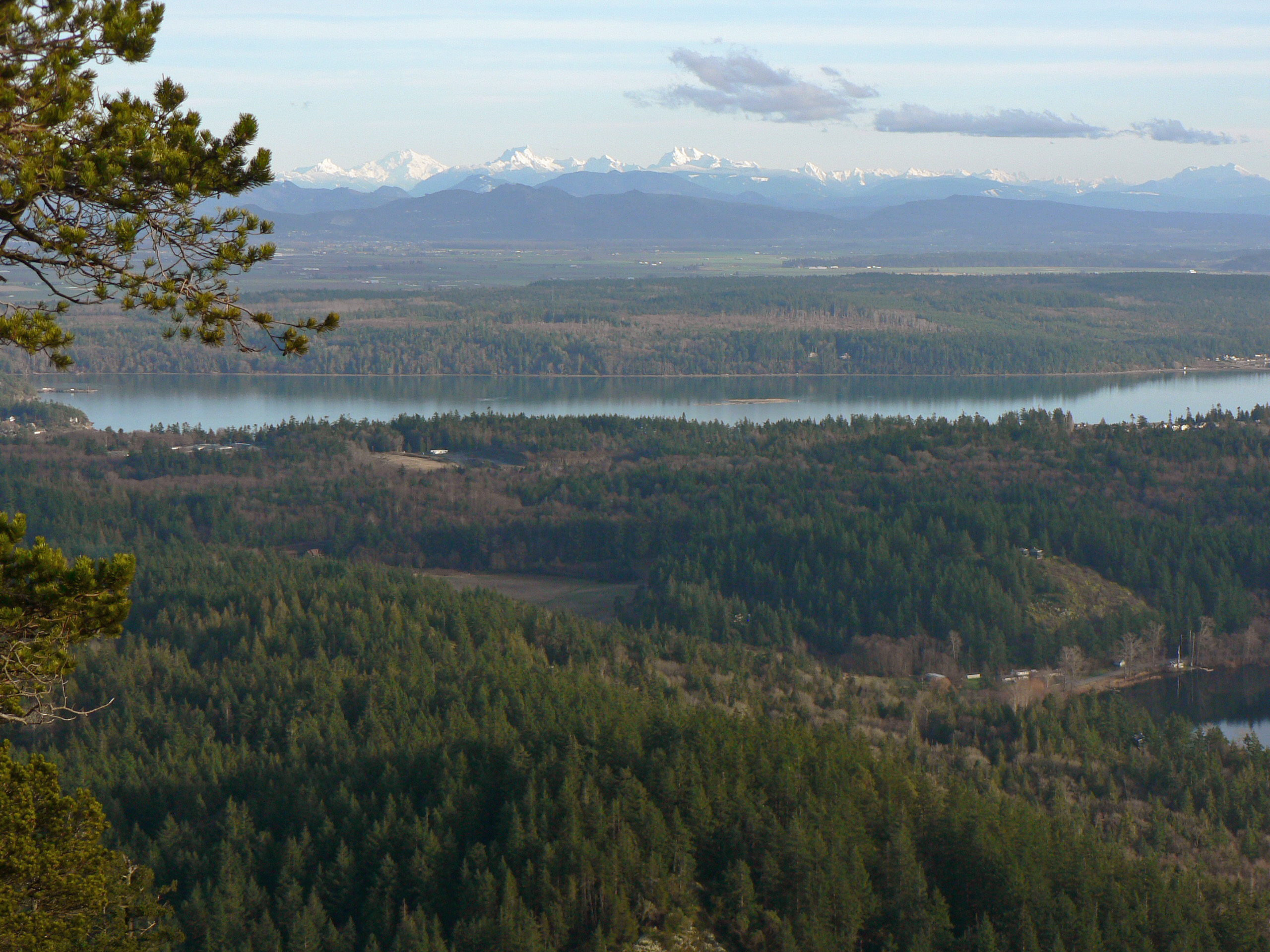 Fidalgo Island and Lake Campbell (lower right); Similk Bay; Swinomish Indian Reservation (middle distance beyond Similk Bay); Glacier Peak (left skyline, 10,520+ feet, 3206+ meters), Whitehorse Mountain (just left of center, 6840+ feet, 2085+ meters), Three Fingers (just right of center, 6850 feet, 2088 meters); Mount Pilchuck (right, 5340 feet, 1628 meters)